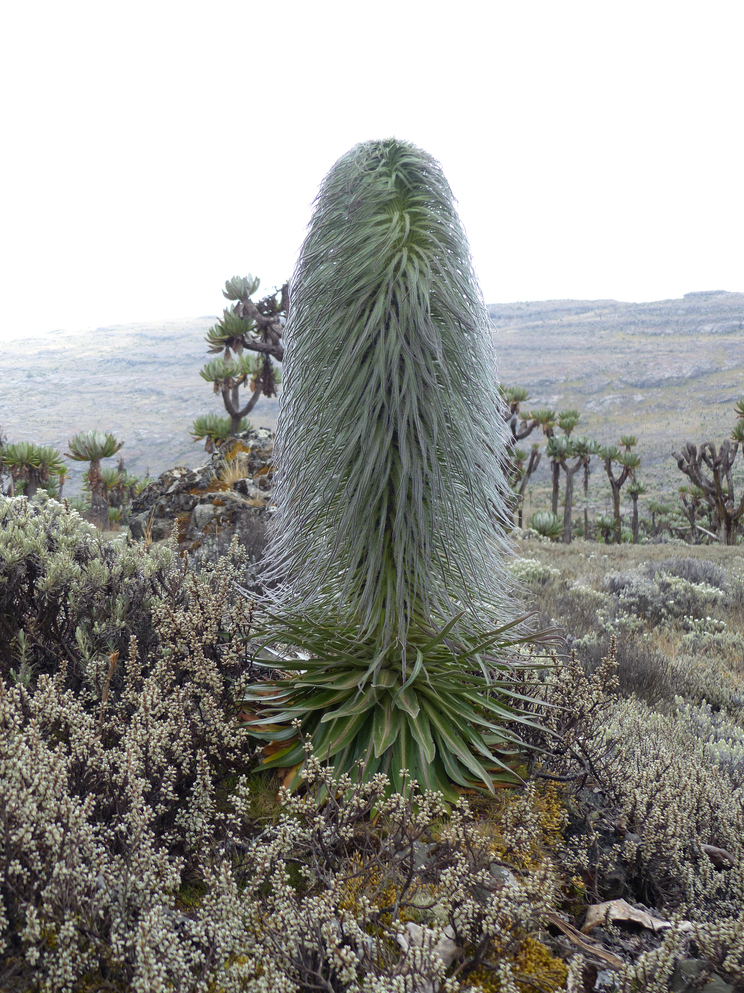 Mount Elgon, Uganda, Lobelia elgonensis